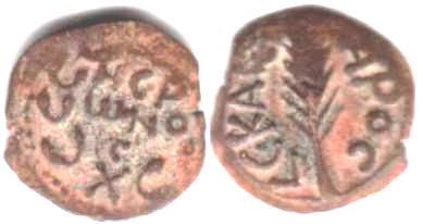 Coin of Porcius Festus. Bronze prutah minted by Porcius Festus. Obverse: Greek letters NEP WNO C (Nero) in wreath tied at the bottom with an X. Reverse: Greek letters KAICAPOC (Caesar) and date LE (year 5 = 58/59 A.D), palm branch.